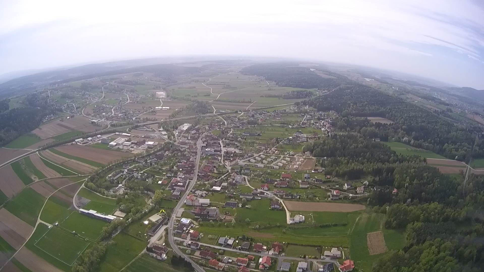 Picture from above from Lafnitz and his neighbor village Neustift in the left top corner